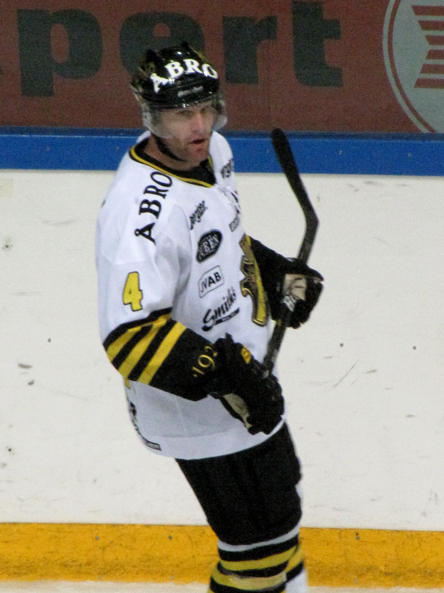 Swedish ice hockey defenceman Fredrik Svensson of AIK Stockholm in a pre-season game against the Finnish club Tampere Ilves in August, 2011.